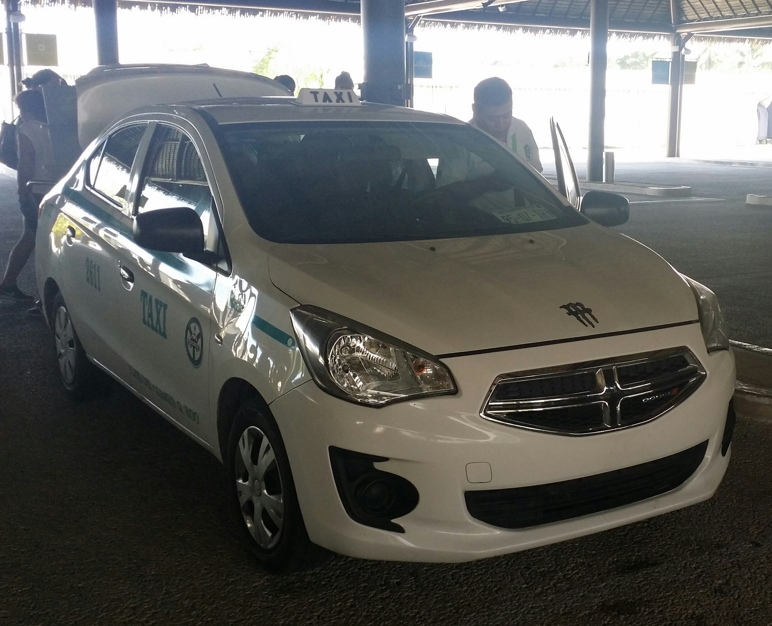 Dodge Attitude photographed photographed in Cancun, Quintana Roo, Mexico .